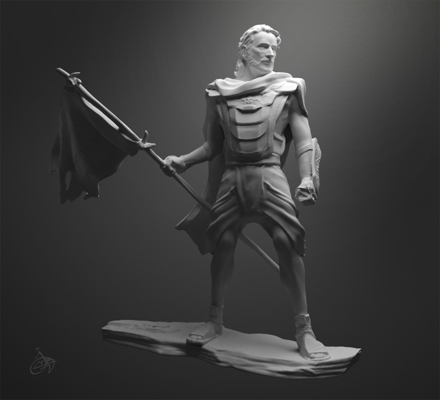 Captain Moroni, commander of the Nephite forces from approximately 74-56 BCE. Digital ZSculpt by Josh Cotton.